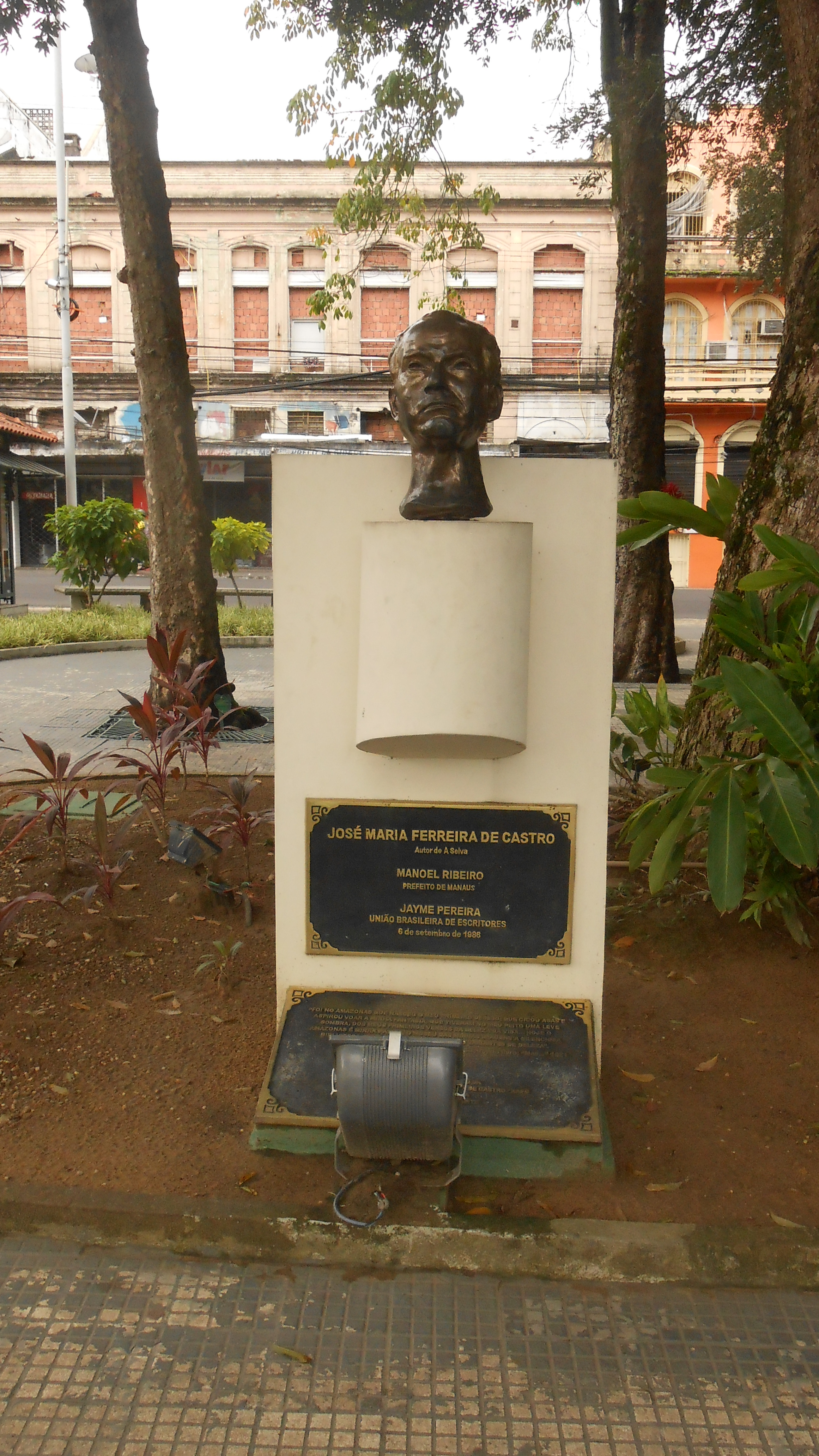 Bust in Manaus of portuguese writer José Maria Ferreira de Castro, author of the famous book The Forest (A Selva, 1930).